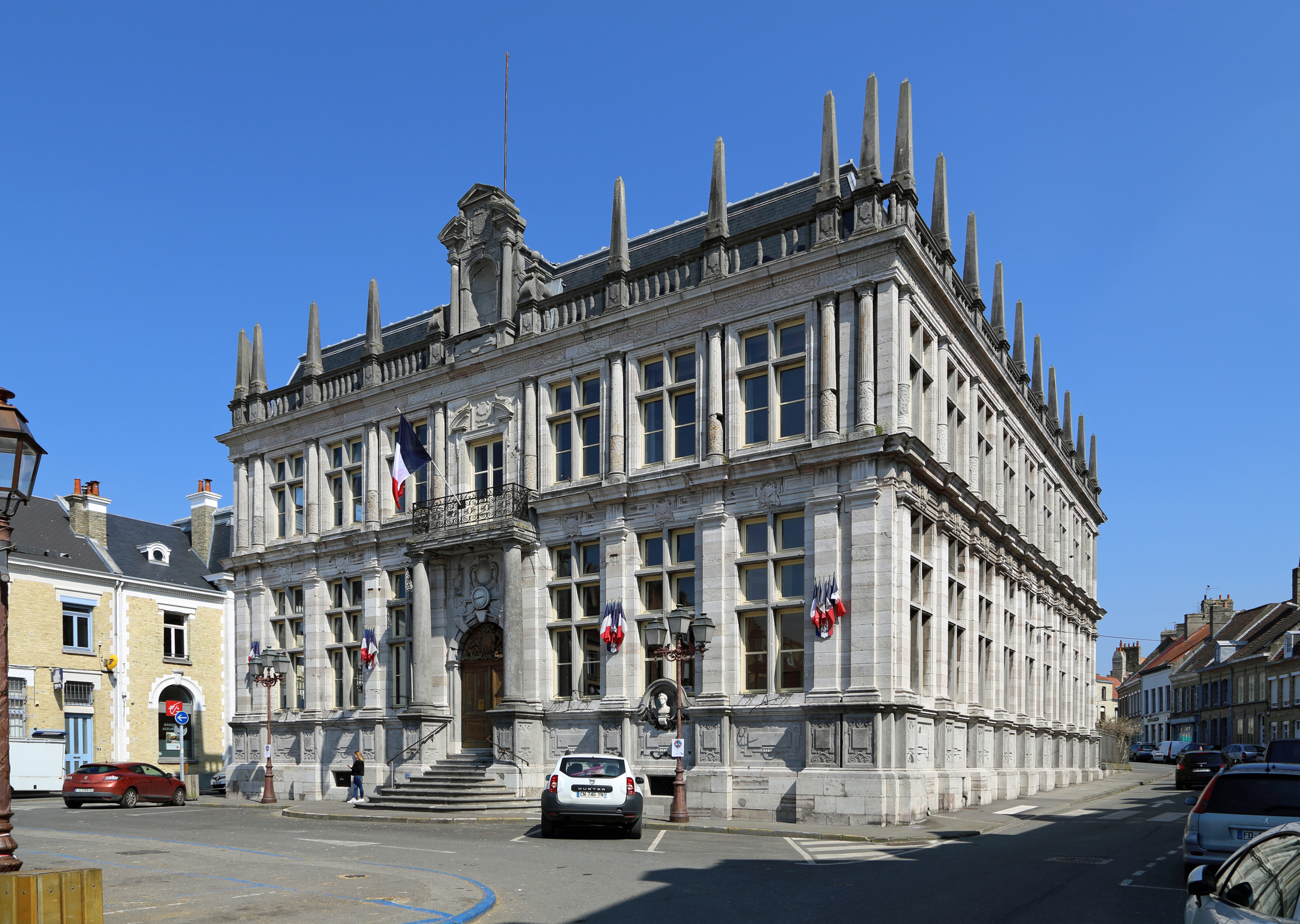 Bergues (Nord department, France): town hall